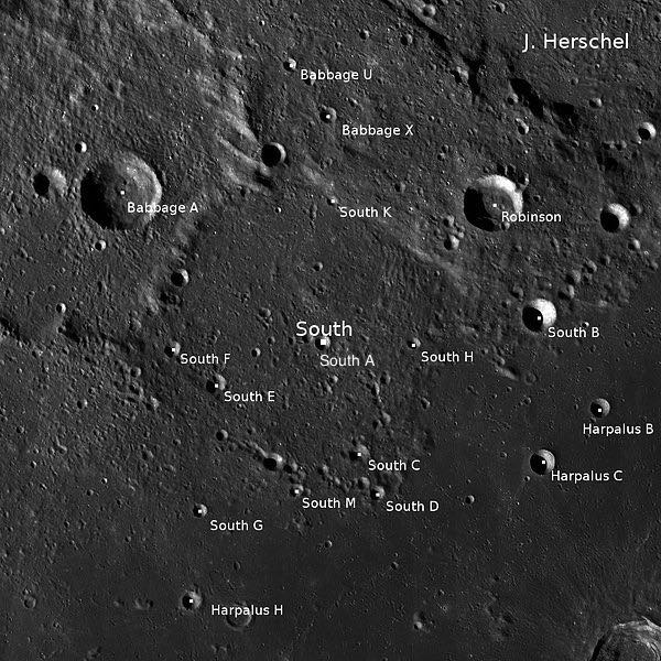 LROC image used for the presentation